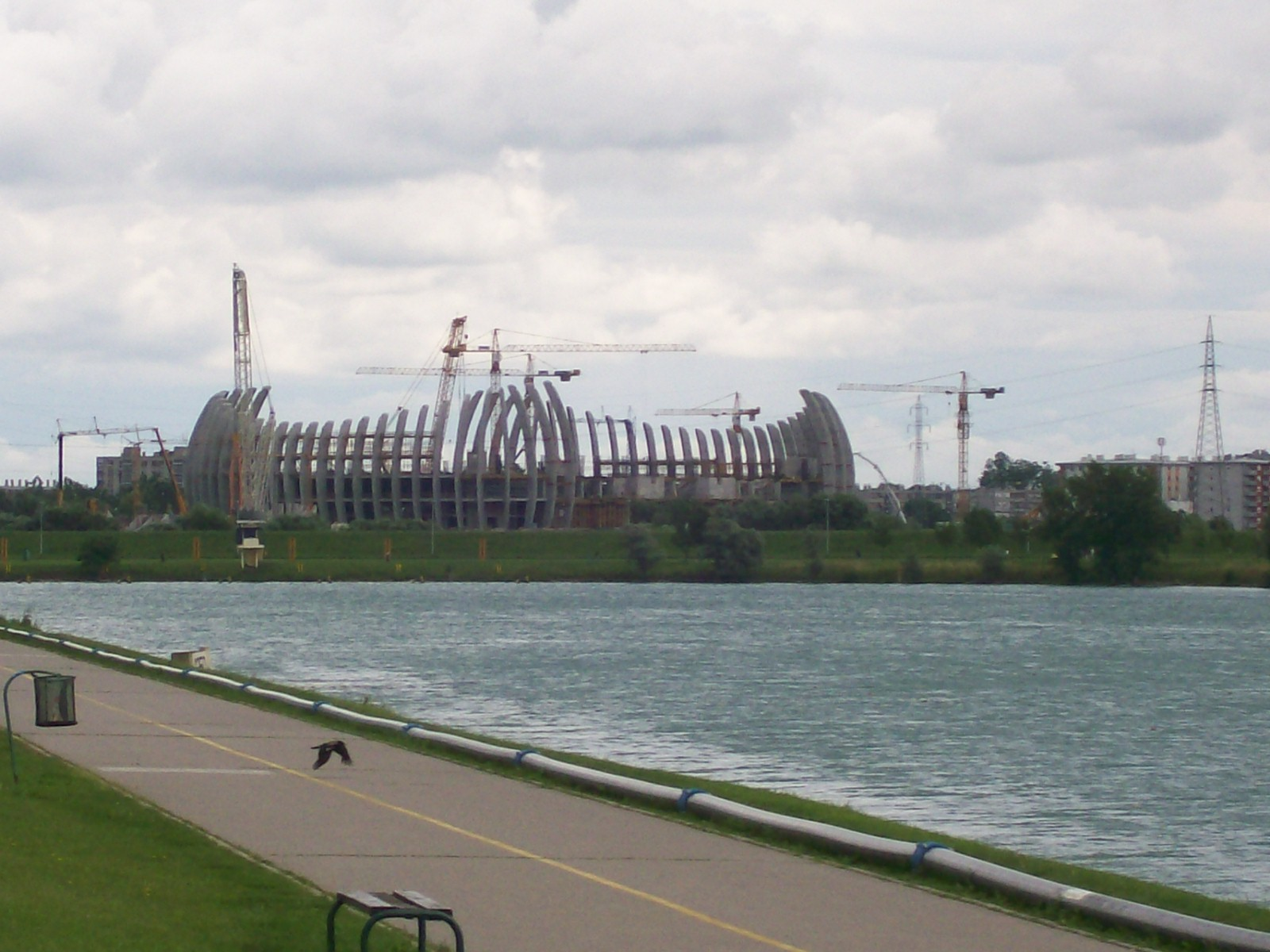 Construction site of the Arena Zagreb (June 2008) - view from lake Jarun